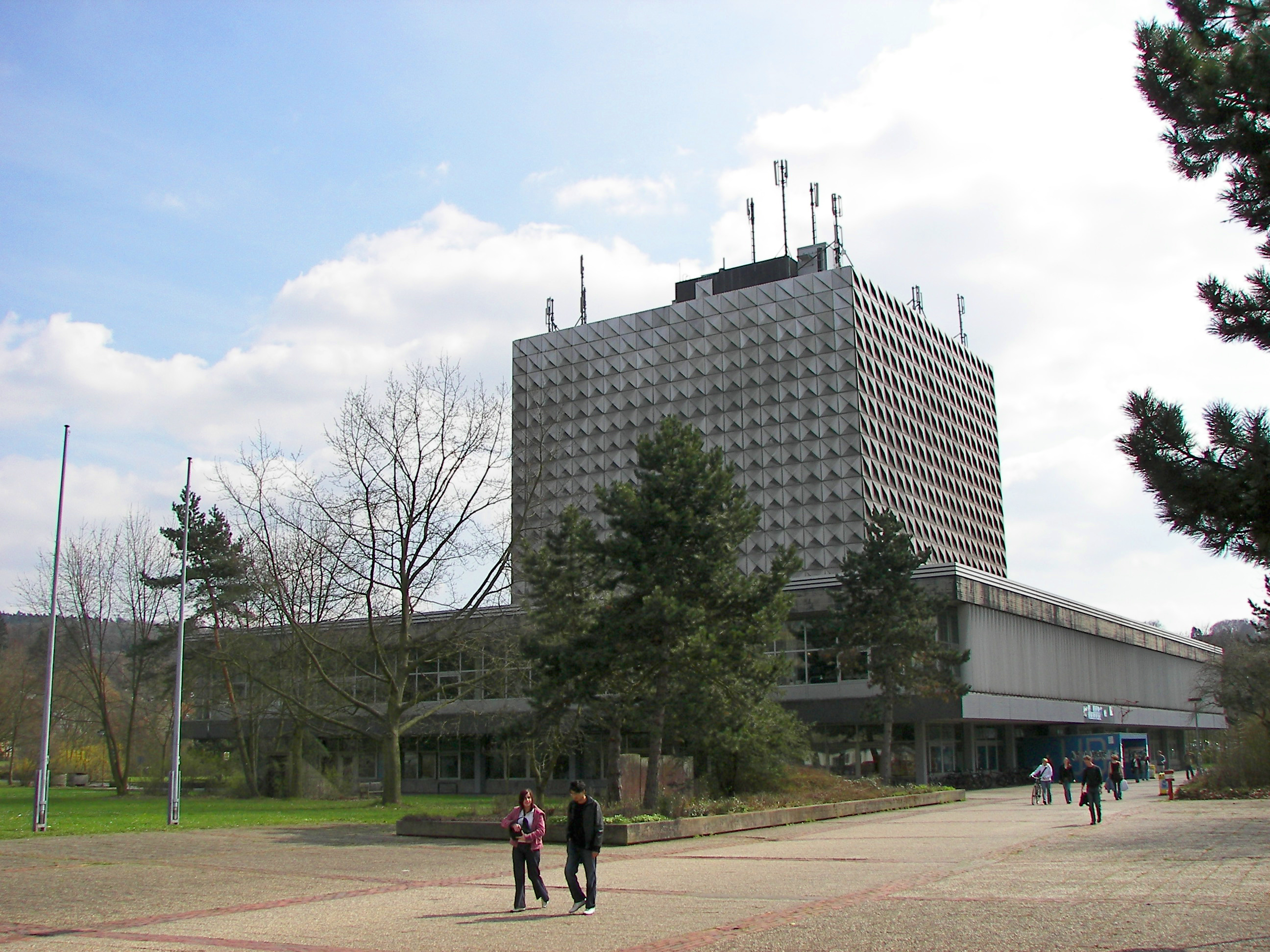 University library Marburg